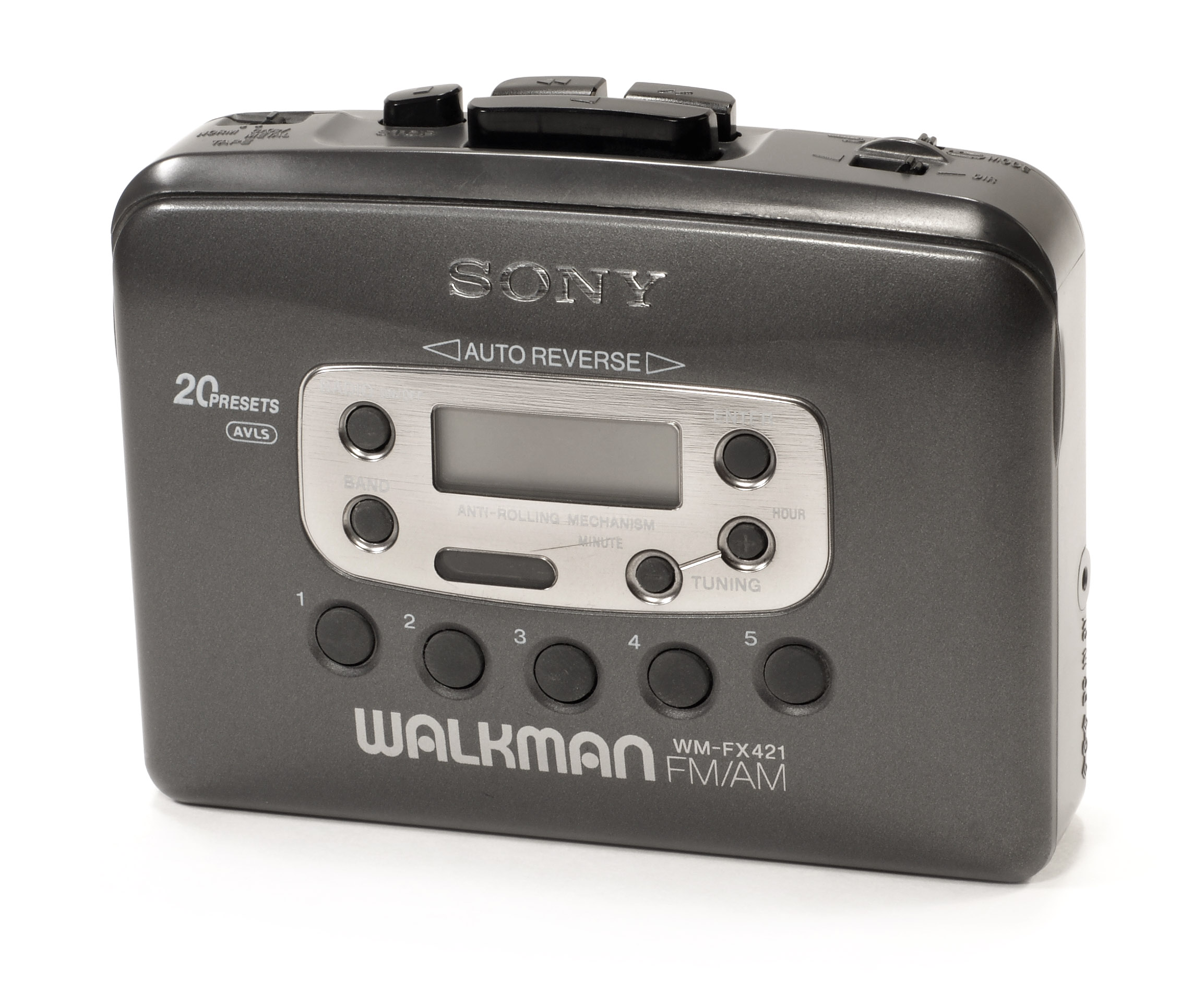 A Sony WM-FX421 Walkman, for stereo cassettes.